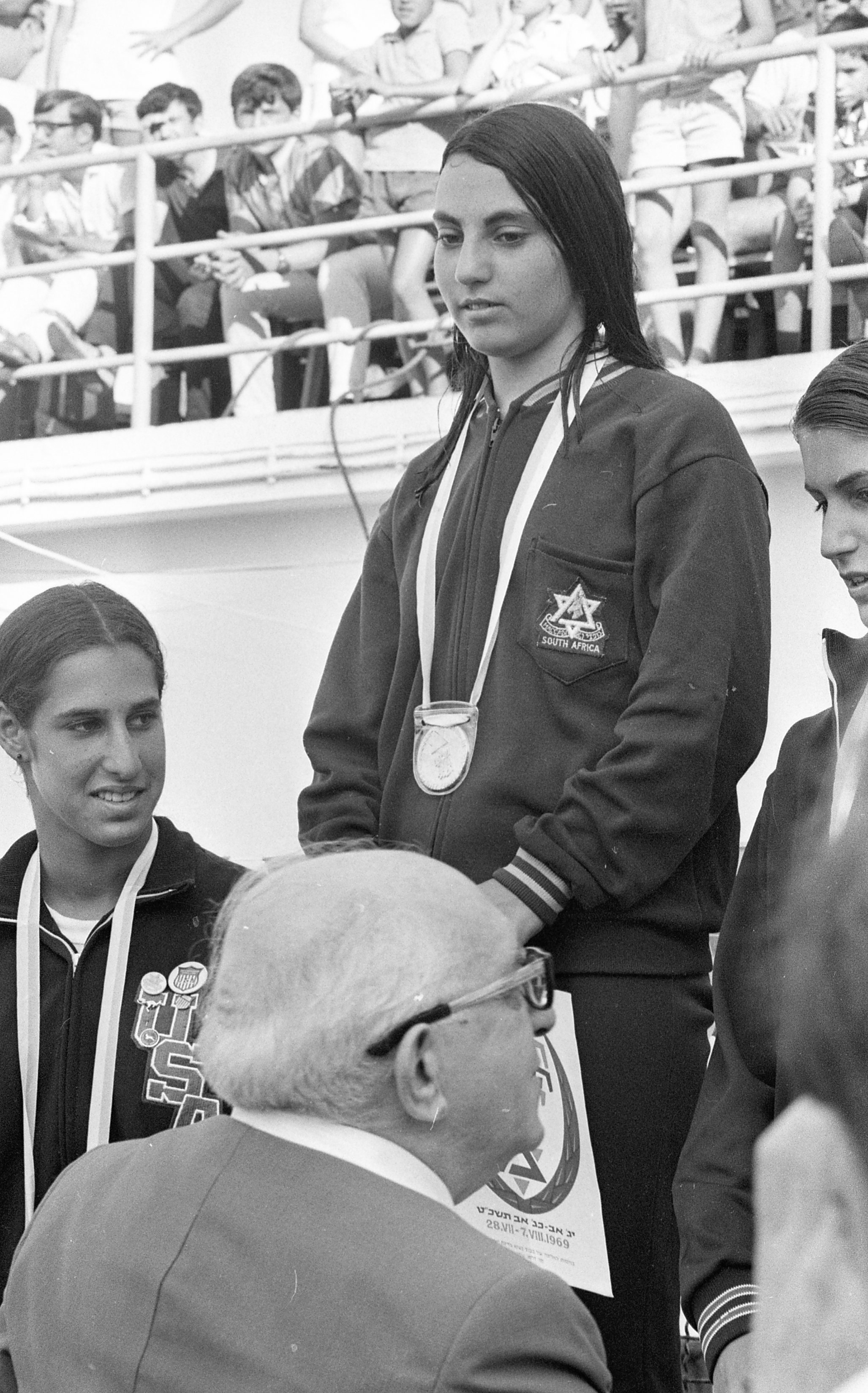 8th Maccabiah Games - 1969.